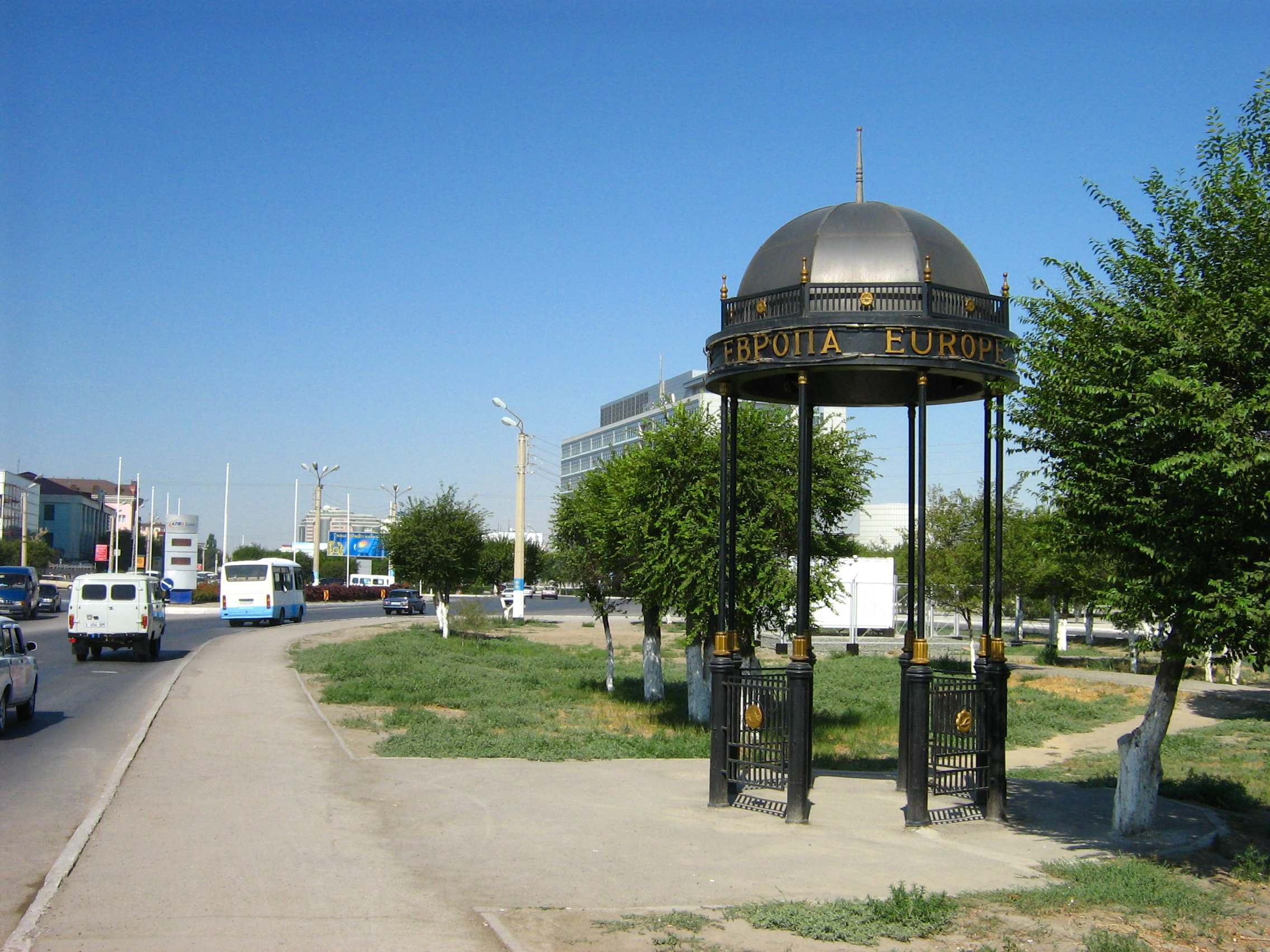 Atyrau city (Kazakhstan), the "Europe" sign